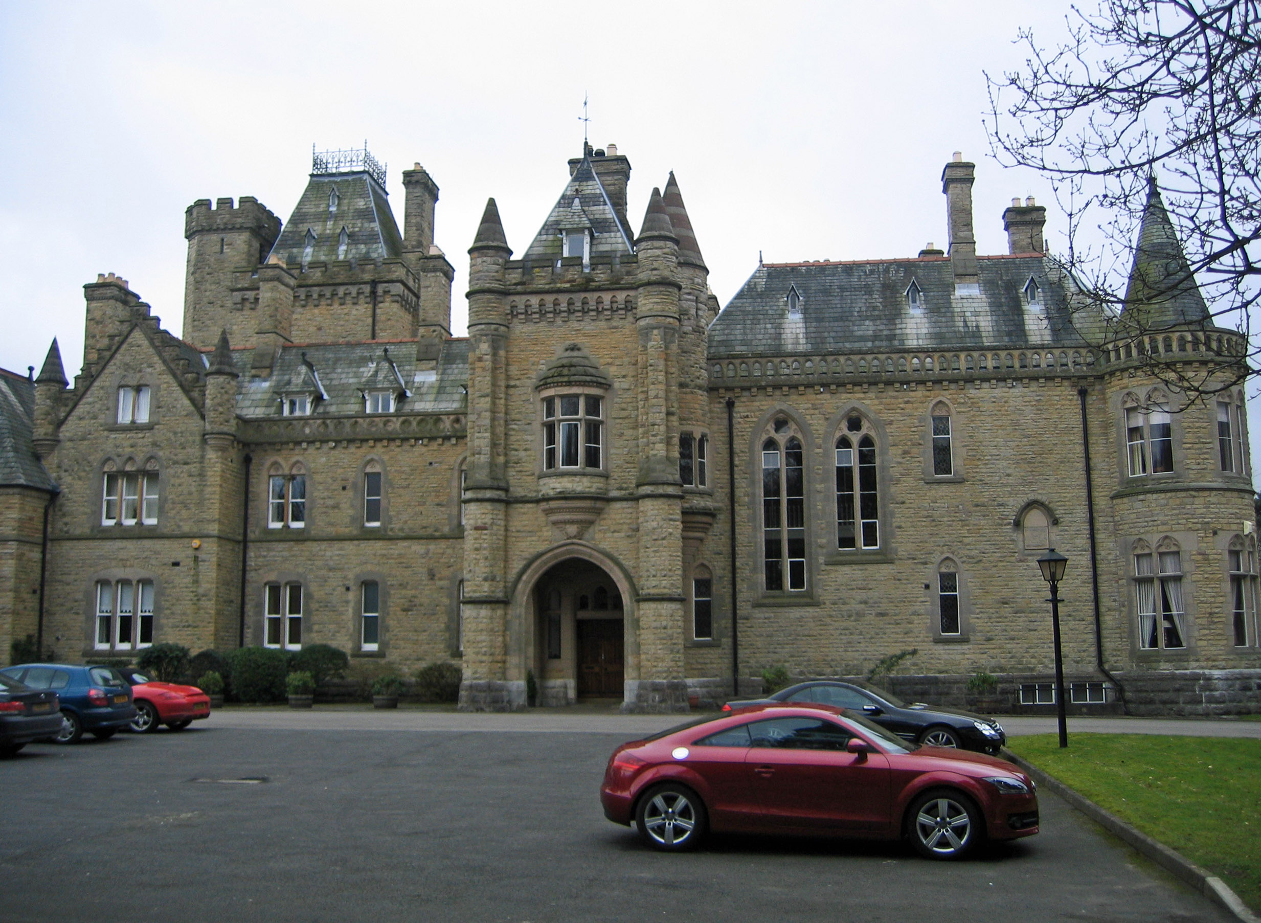 Photograph of the west front of Oakmere Hall